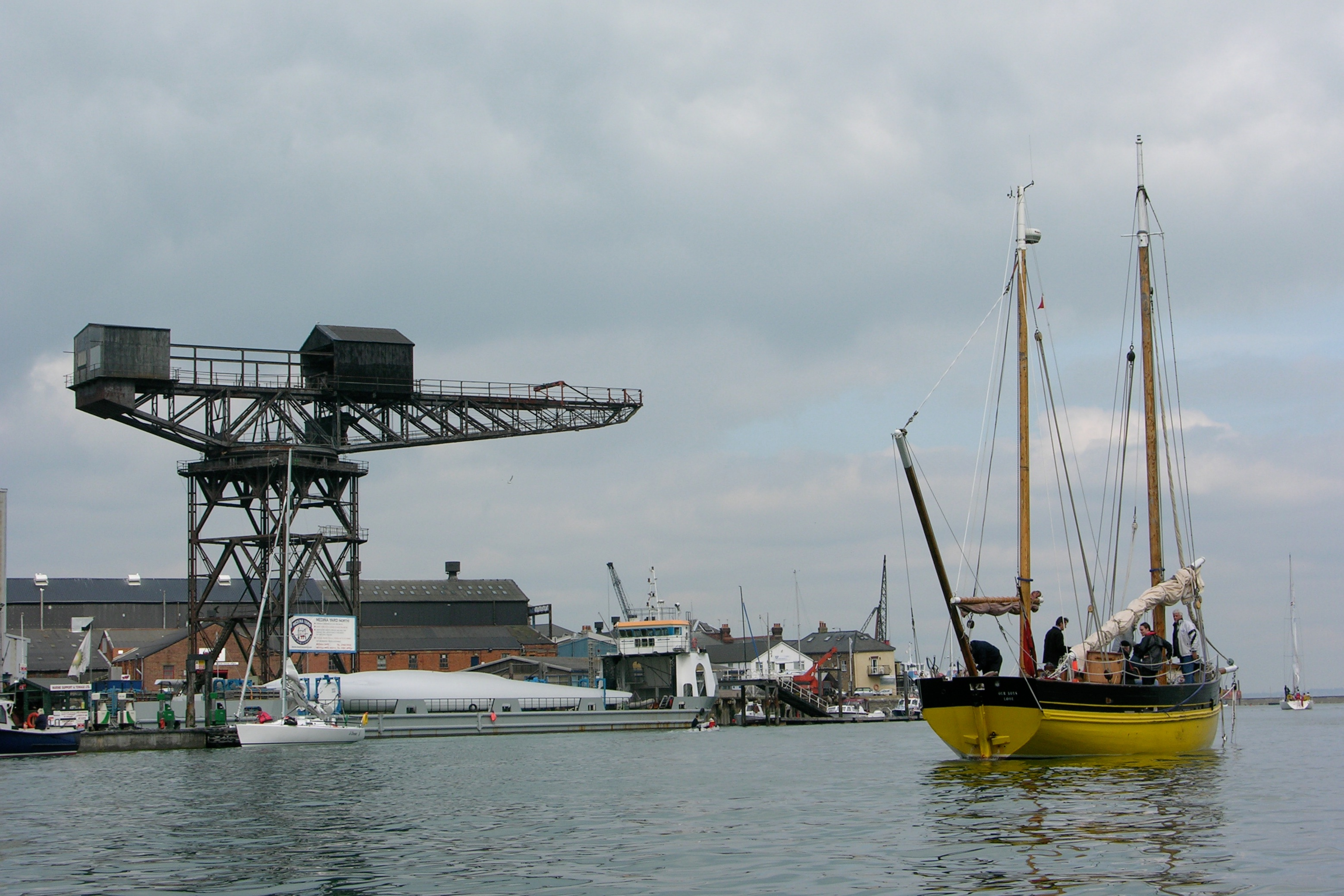 HAMMERHEAD CRANE AT J S WHITE SHIPYARD Wikidata has entry Q17555941 with data related to this building.